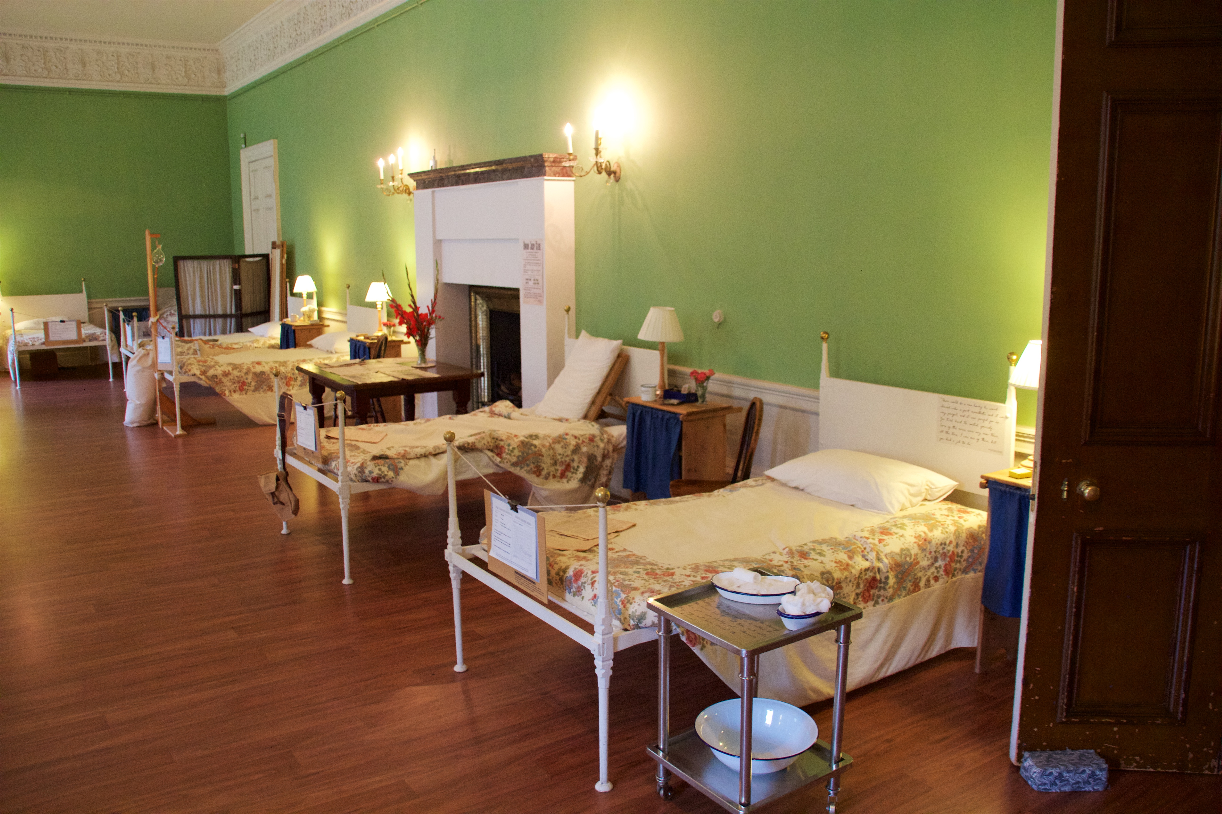 Dunham Massey Hall, United Kingdom